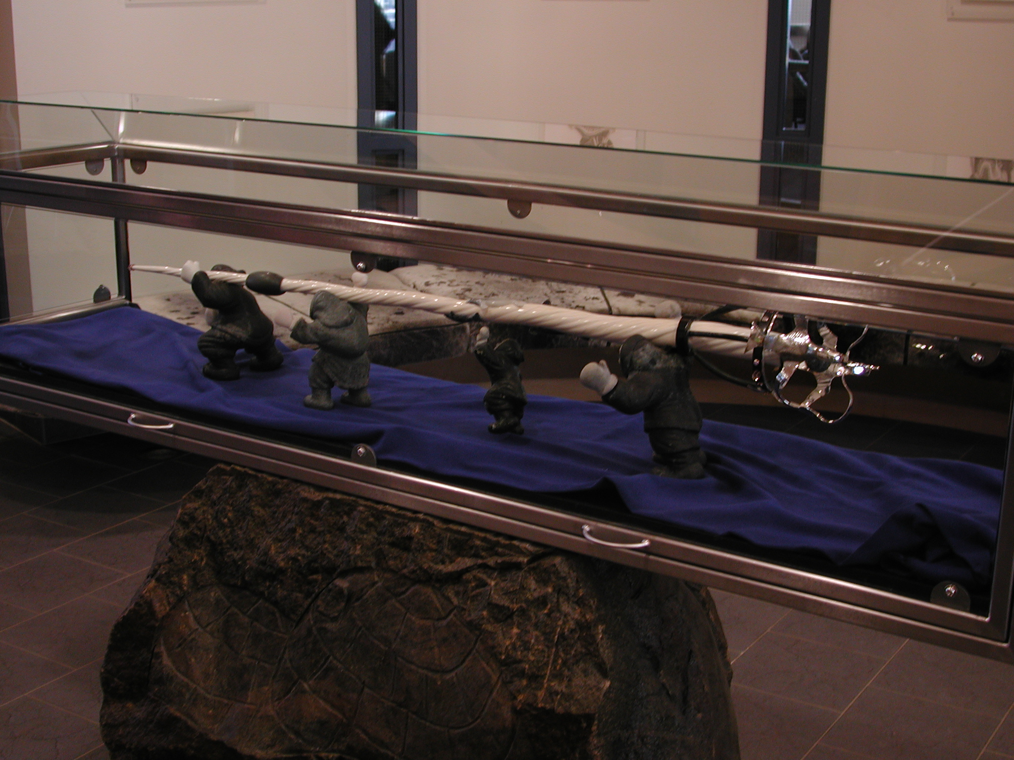 Mace of the Legislative Assembly of Nunavut, Iqaluit. Picture from January 2001.